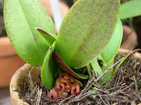 Cryptophoranthus fenestratus